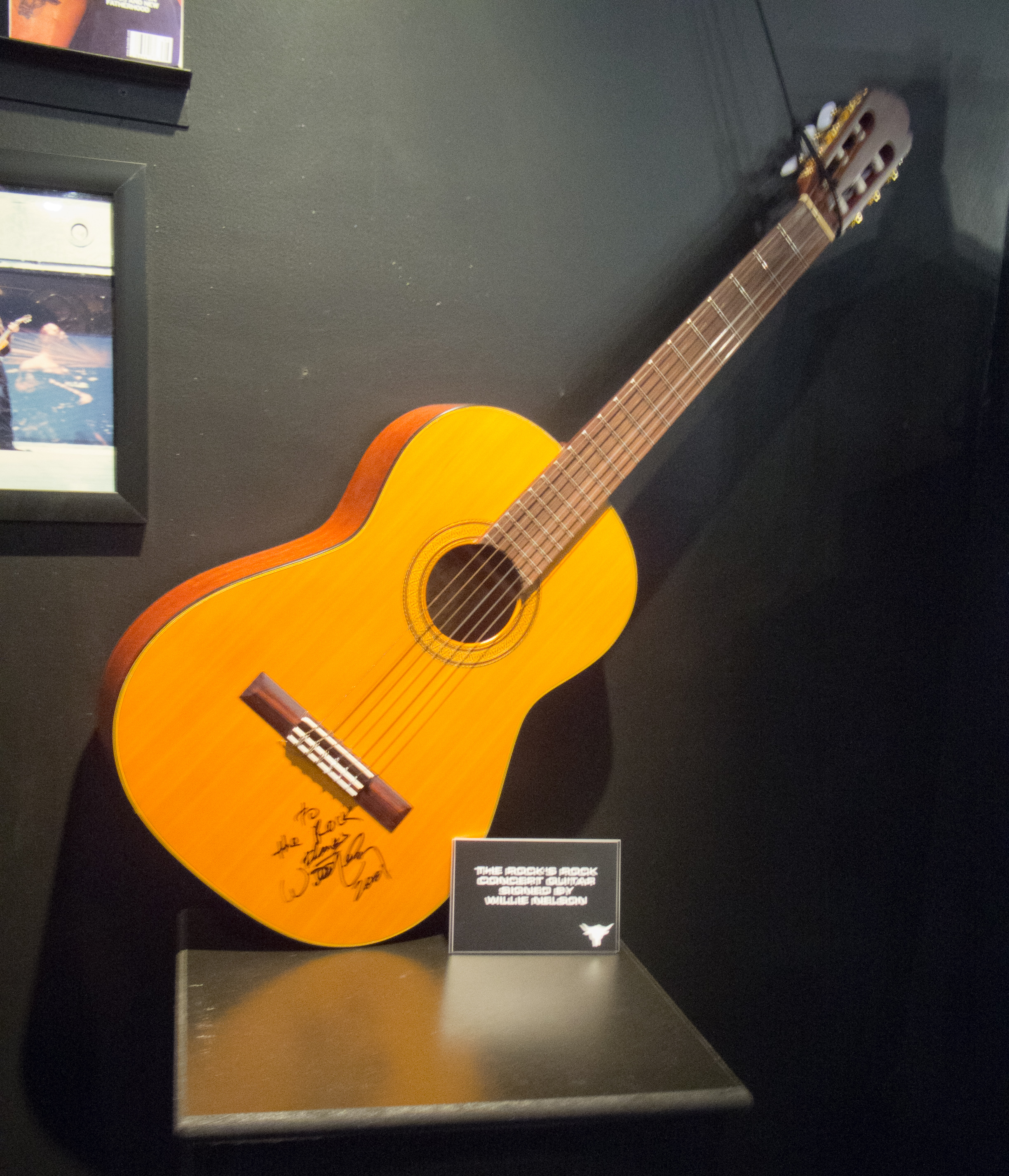 The Rock Memorabilia